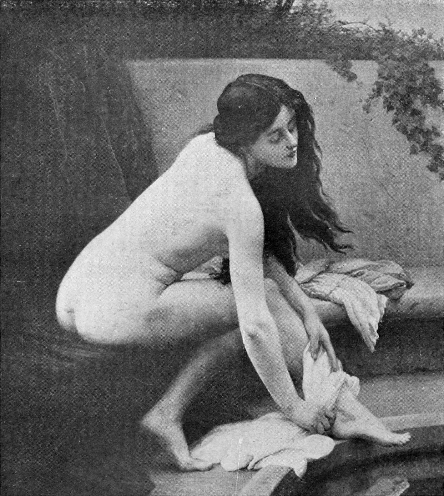 Bathing